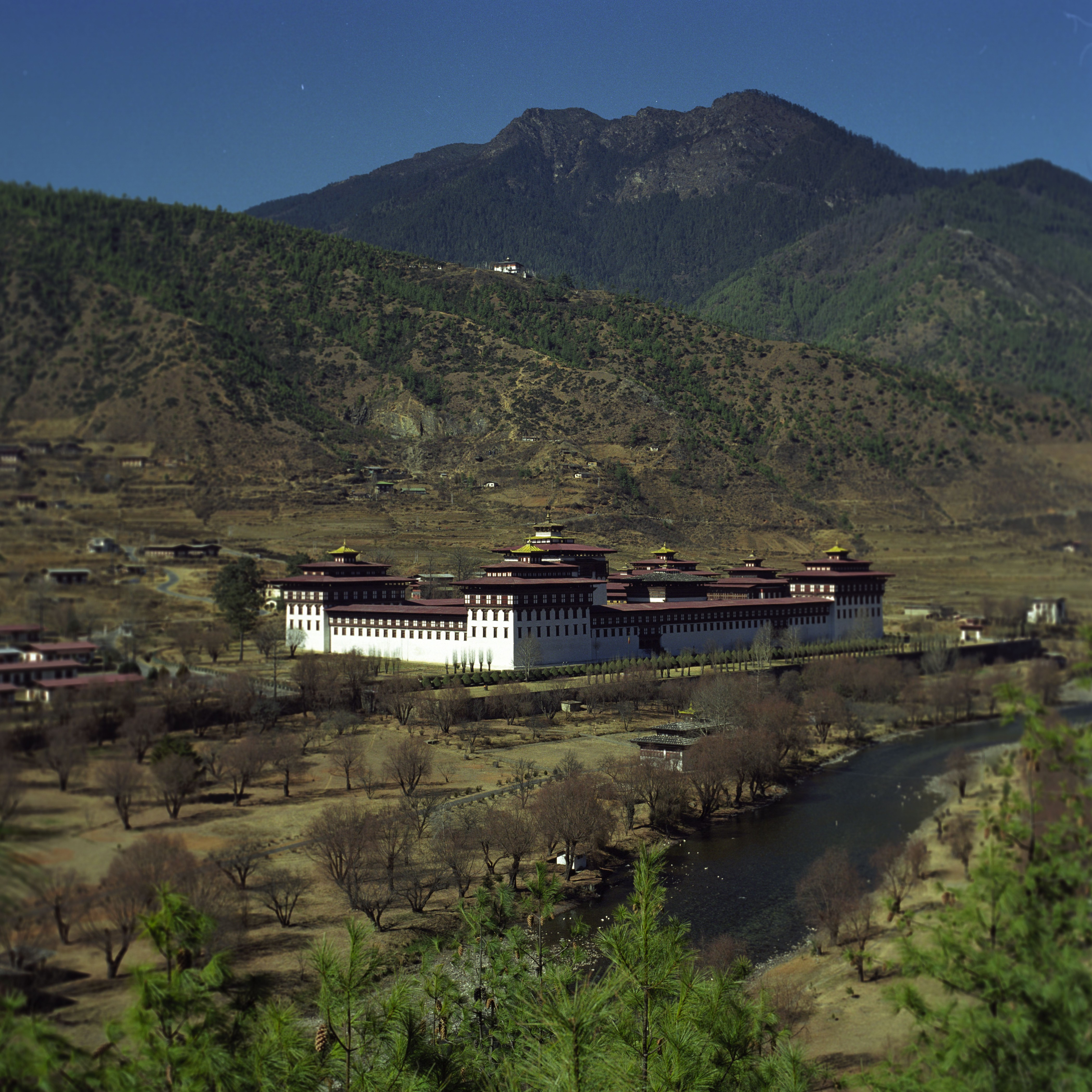 Tashichho Dzong, Thimphu, Bhutan. It is a Buddhist monastery and seat of the Druk Desi, the head of Bhutan's civil government.